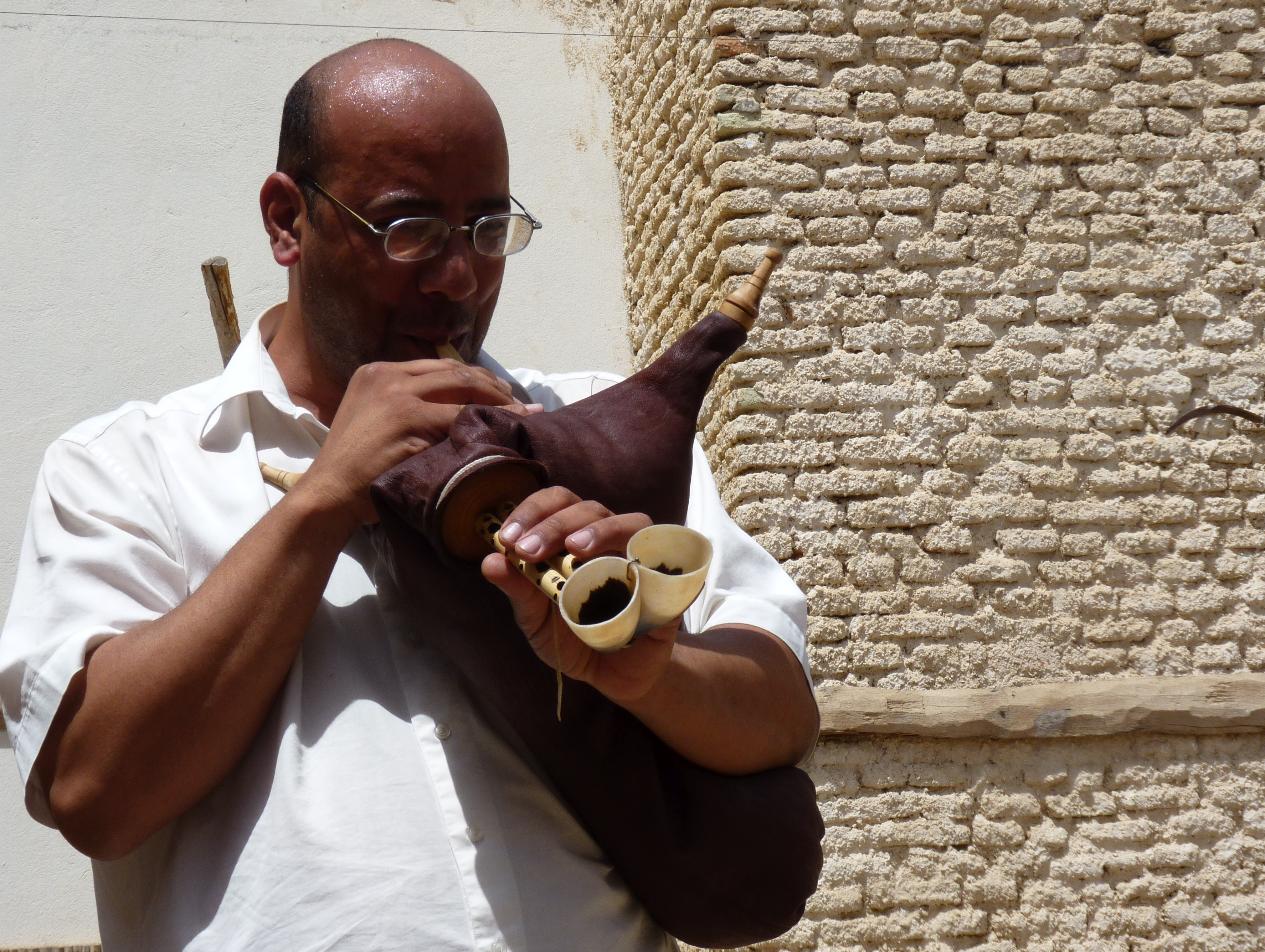 Mezoued player at the music school in Tozeur, Tunisia